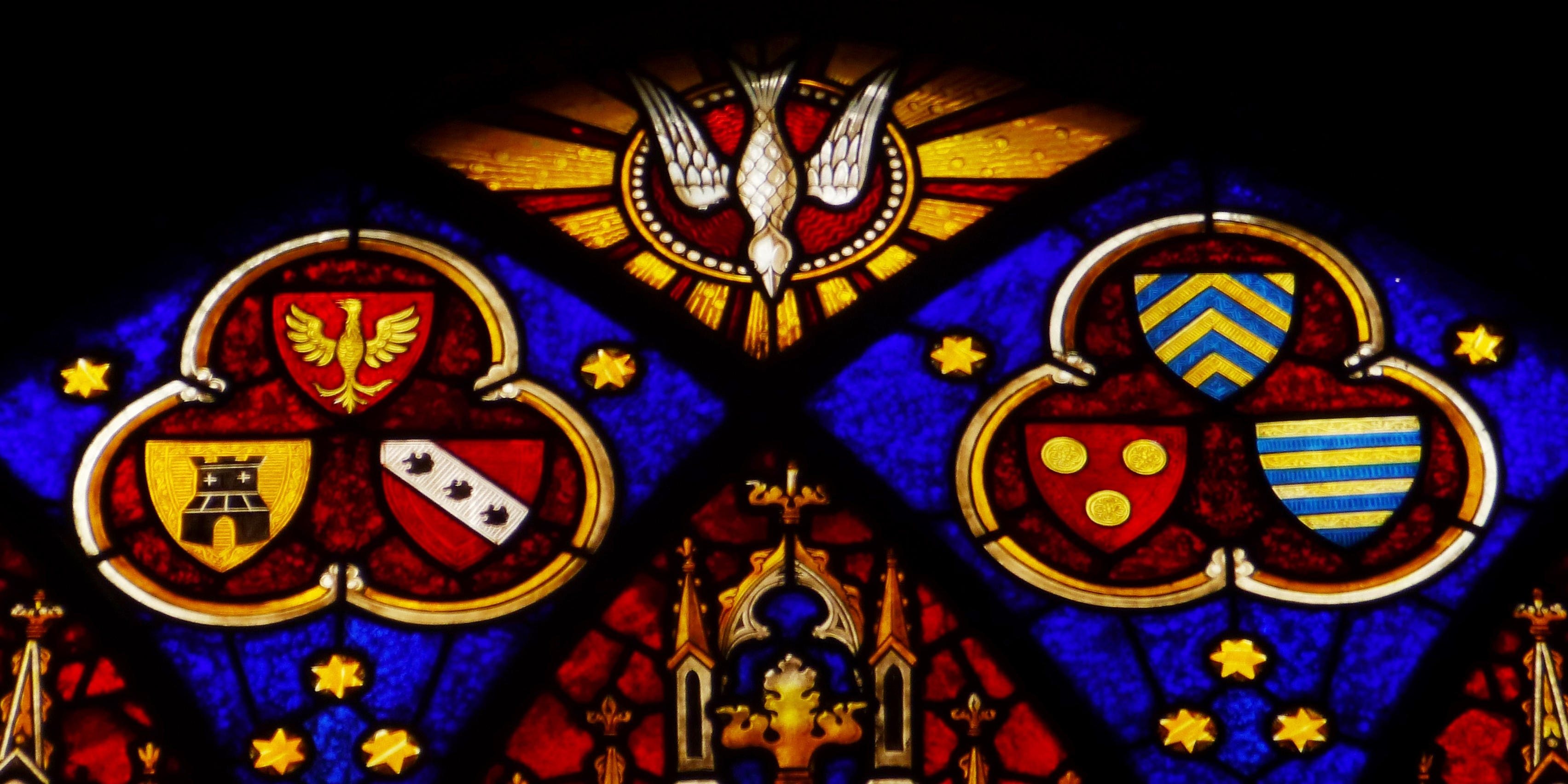 Coats of arms of Metz Noble Houses on stained glass in Saint-Martin church nave.